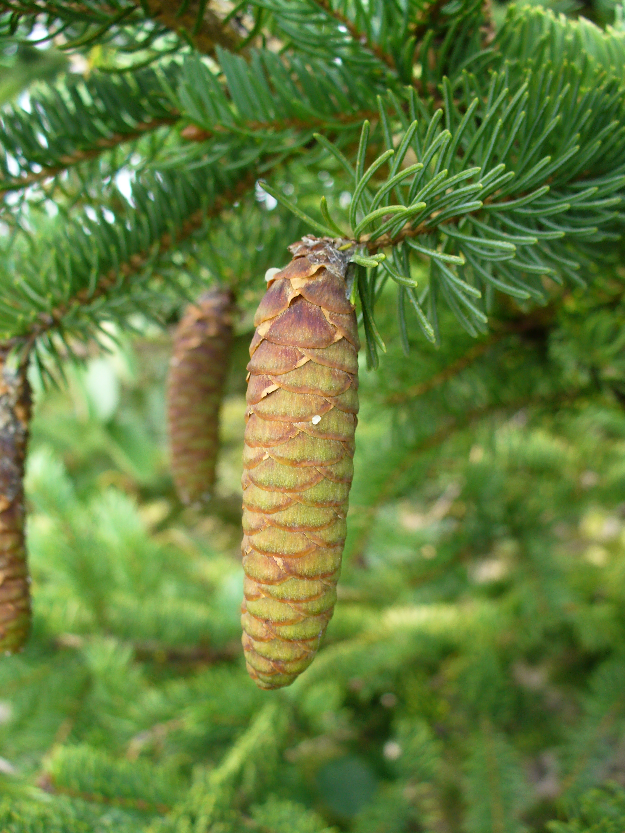 I am the originator of this photo. I hold the copyright. I release it to the public domain. This photo depicts a Picea glauca cone.